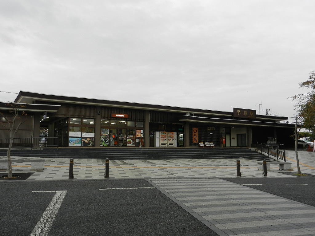 Tohoku Main Line Hiraizumi Station (after renewal)